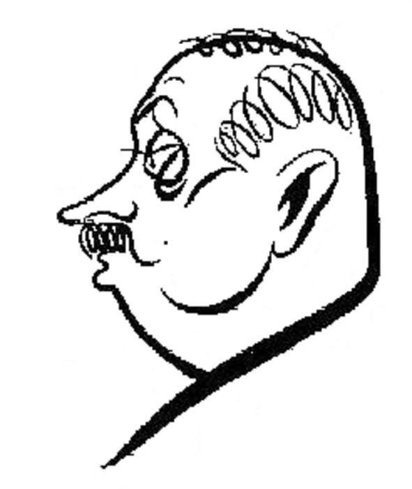 Mykolas Sleževičius - chairman of Lithuanian Peasant Popular Union. Drawing by Leonas Kaganas printed in "Sekmadienis", 1933 01 29.